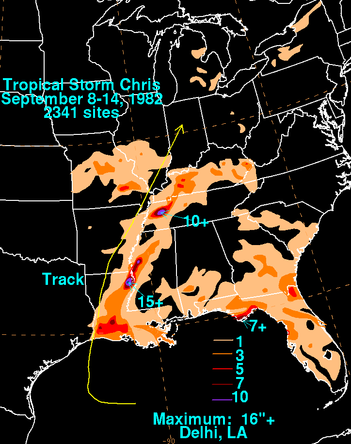 Storm total rainfall map of Tropical Storm Chris during September 1982.